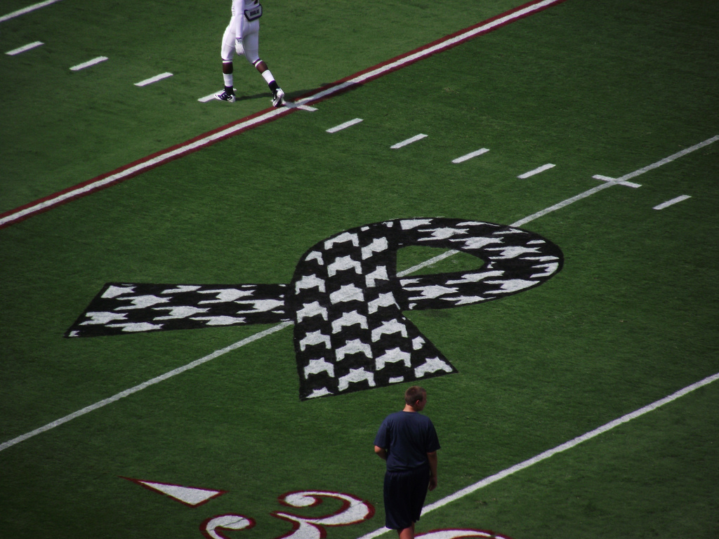 Houndstooth ribbon painted on the field at Bryant–Denny Stadium during the 2011 season as a symbol of remembrance of the victims and damage caused by the April 27, 2011, EF4 rated tornado that devastated Tuscaloosa.